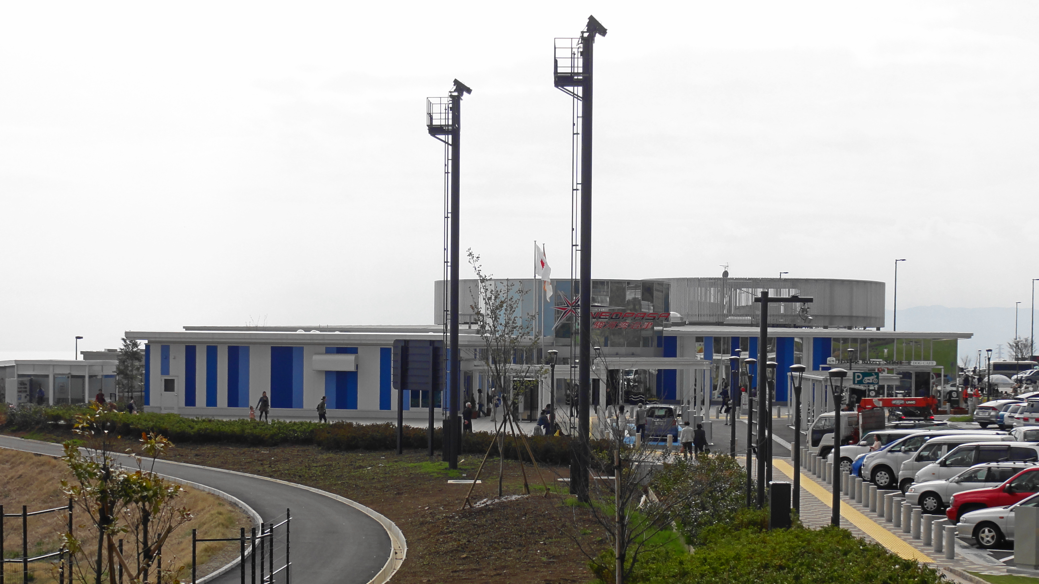 Surugawan-Numazu Service Area kudari,Shizuoka prefecture, Japan